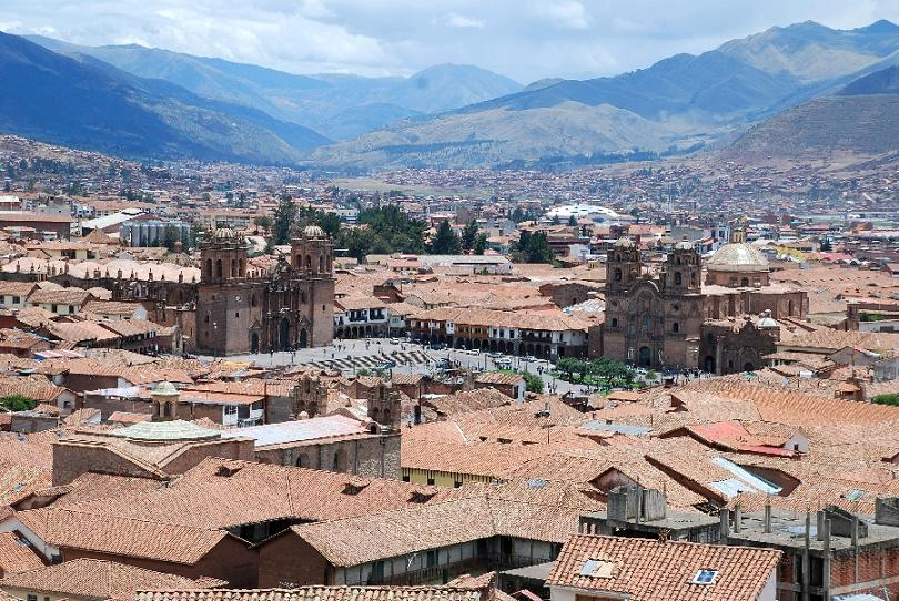 Central Square, Cusco, Peru